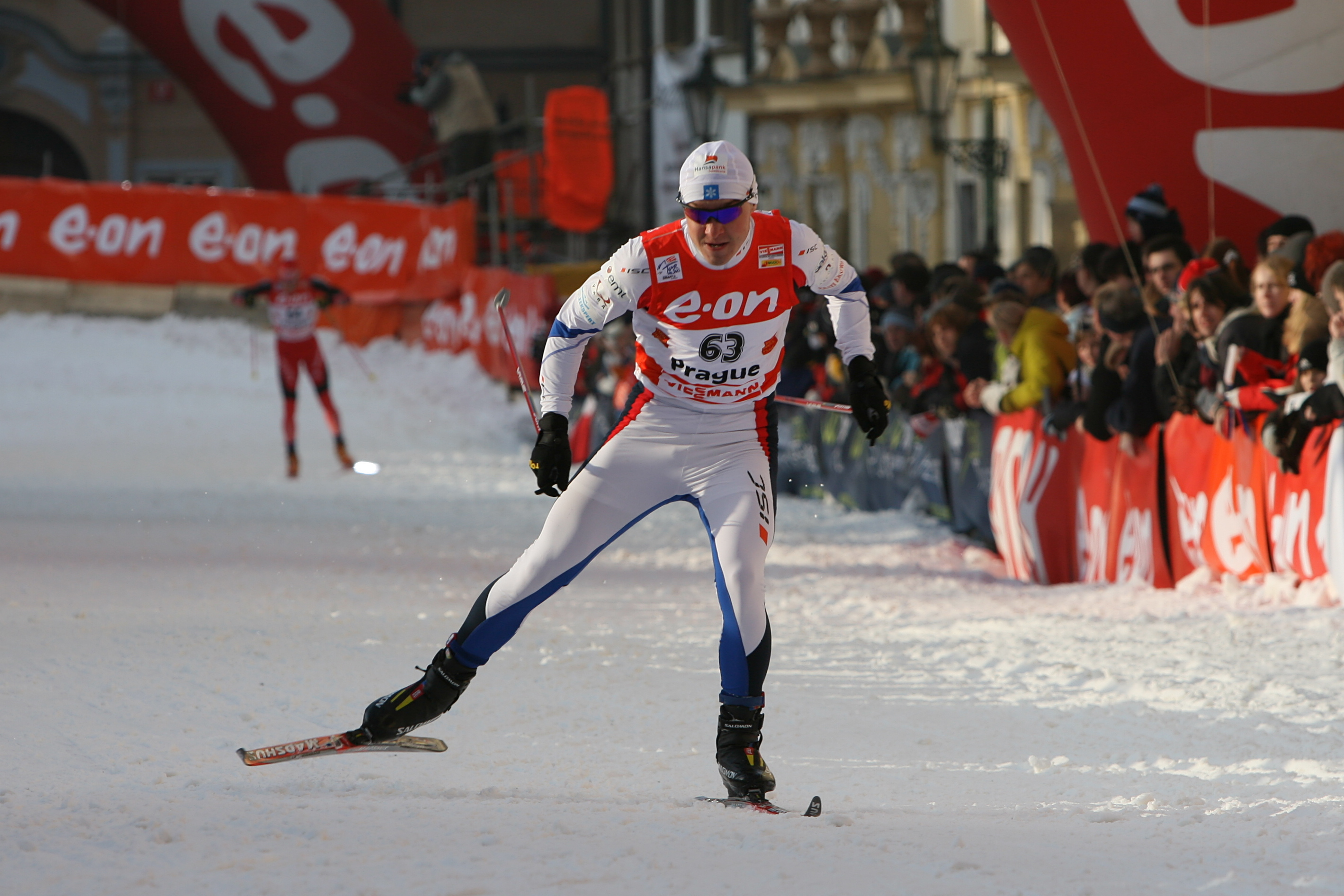 Kaspar Kokk in the qualification of Tour de Ski in Prague